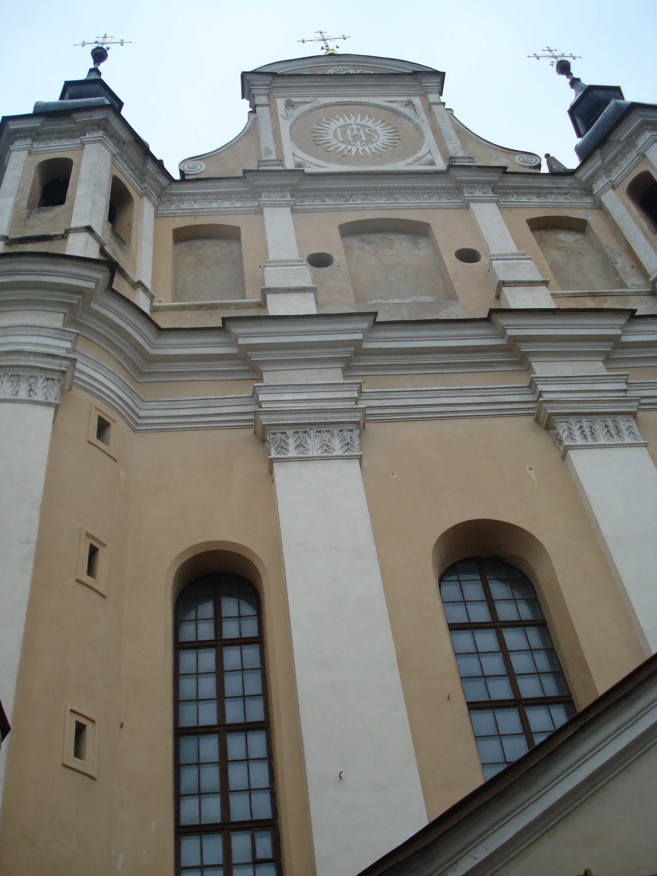 Church of St. Michael in Vilnius. Facade